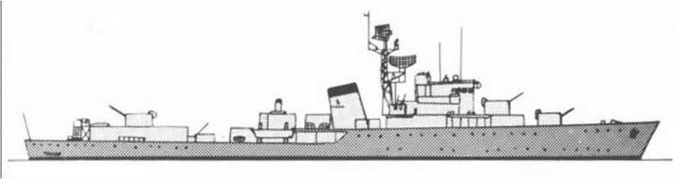 Nueva Esparta Class Destroyer, image composed from a Daring & battle Class Destroyer